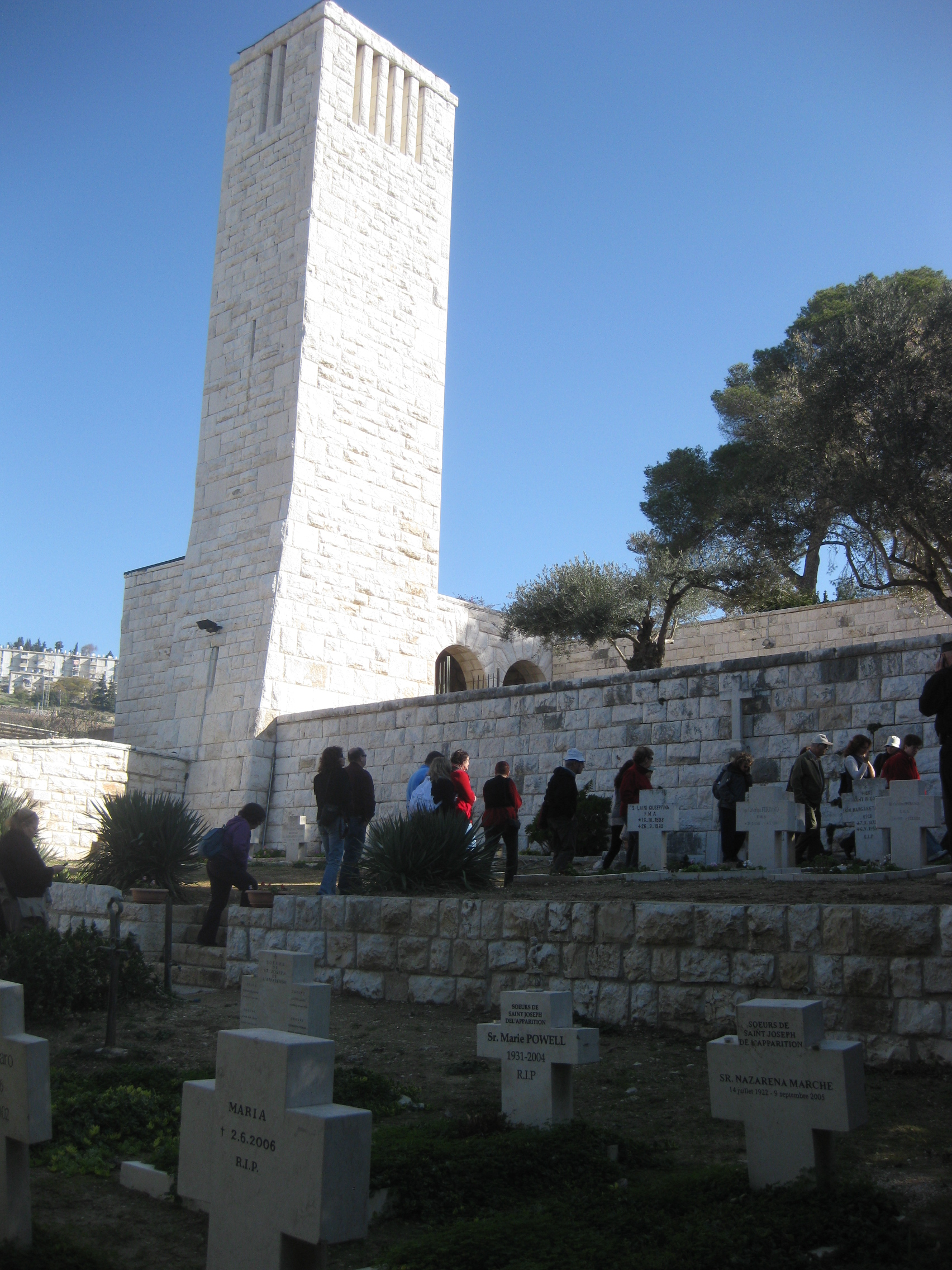 A well-kept cemetery German army soldiers killed in World War I in Israel